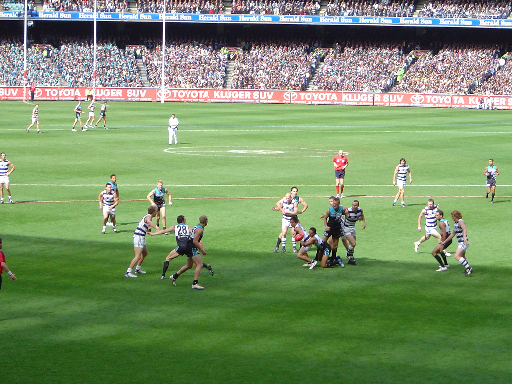 Geelong Football Club wins its first AFL Grand Final since 1963 defeating Port Adelaide by a record margin. This is a vision of play during the game